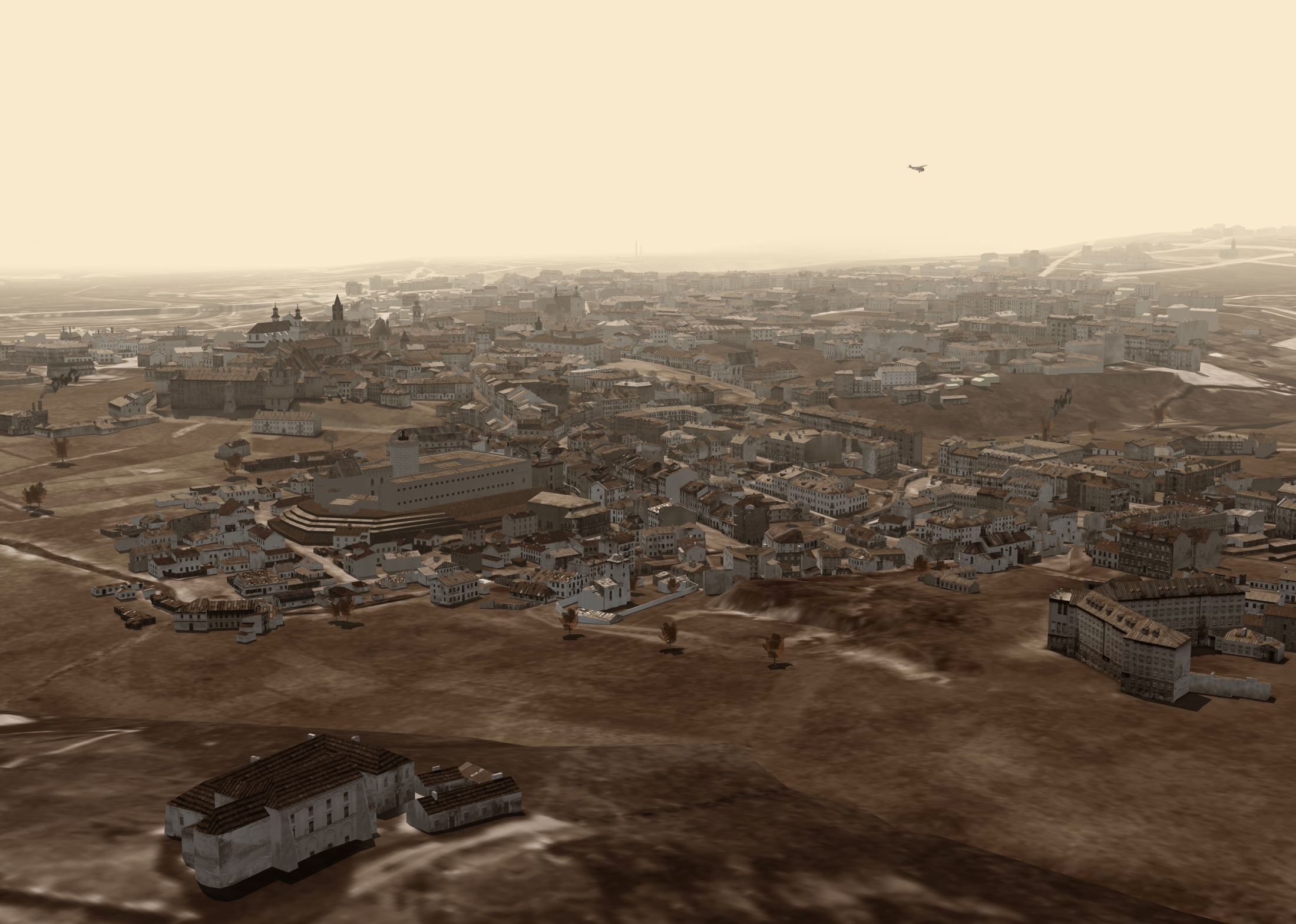 A virtual mock-up, i.e. a 3D city model, of Lublin in the sixteenth century created within the project "Lublin 2.0 - Interactive reconstruction of the history of the city" at the "Grodska Gate - NN Theatre" in 2012.